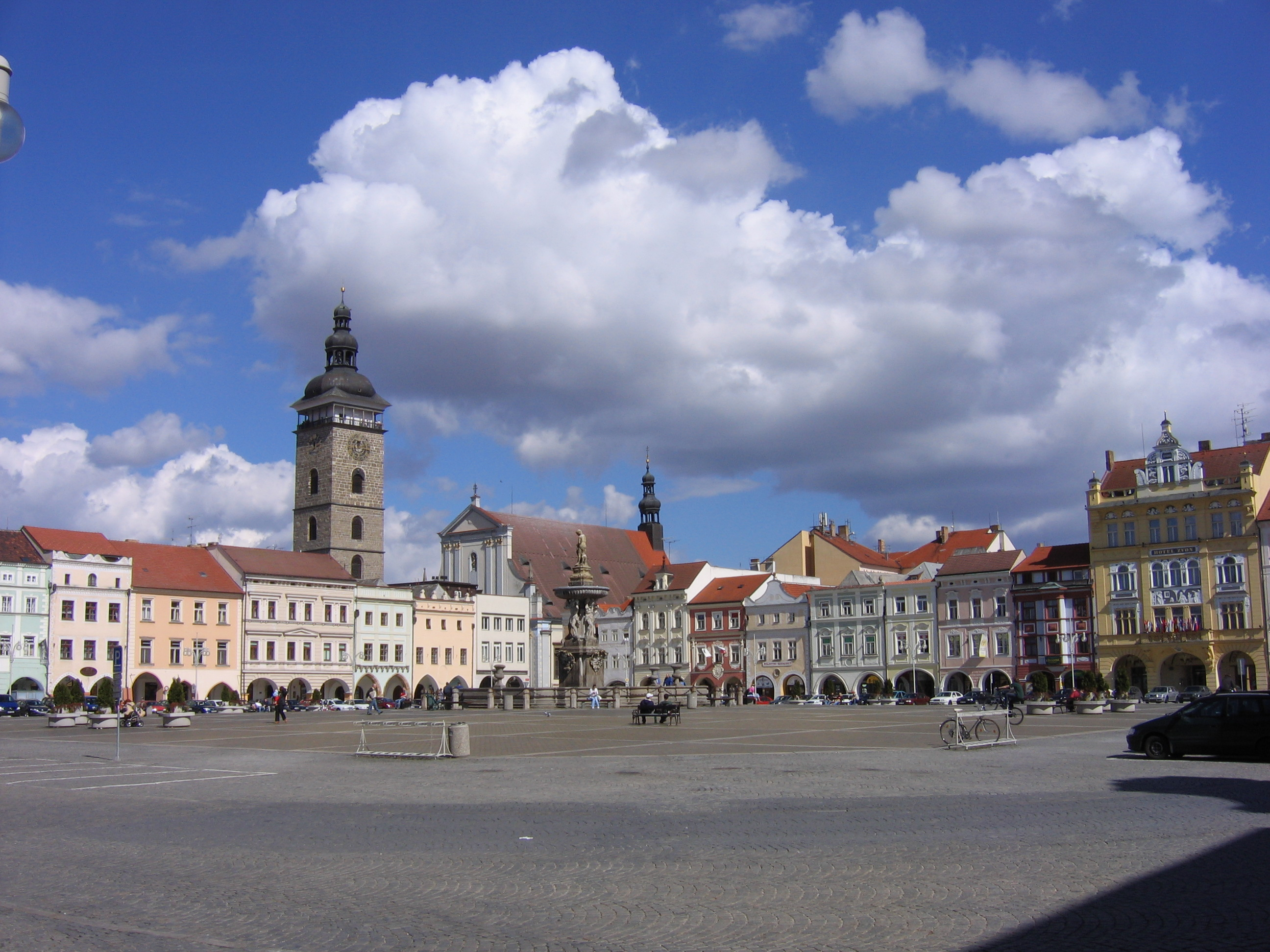 Přemysl Otakar II Square, České Budějovice, Czech Republic. Black Tower, cathedral church of St. Nicholas and Samson's Fountain.